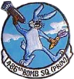 Emblem of the 486th Bombardment Squadron (Provisional) (SAC)